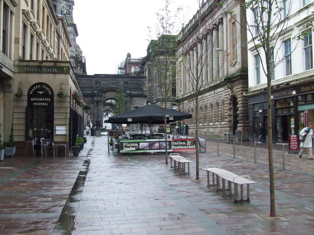 John Street Al fresco dining (weather permitting) at the Italian Centre.